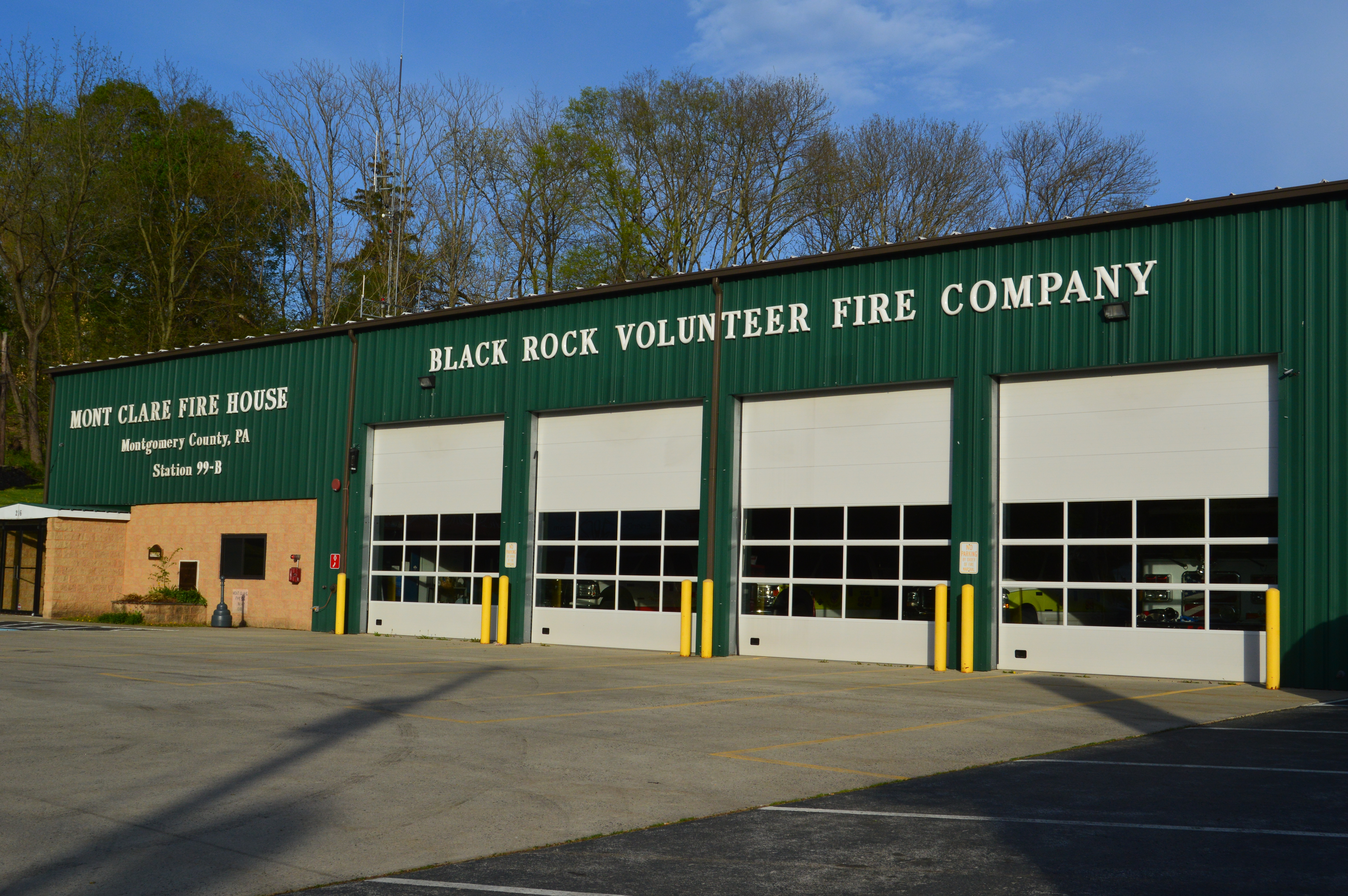 Mont Clare Fire House, of the Black Rock Volunteer Fire Company, located on Bridge Street in Mont Clare, Pennsylvania.